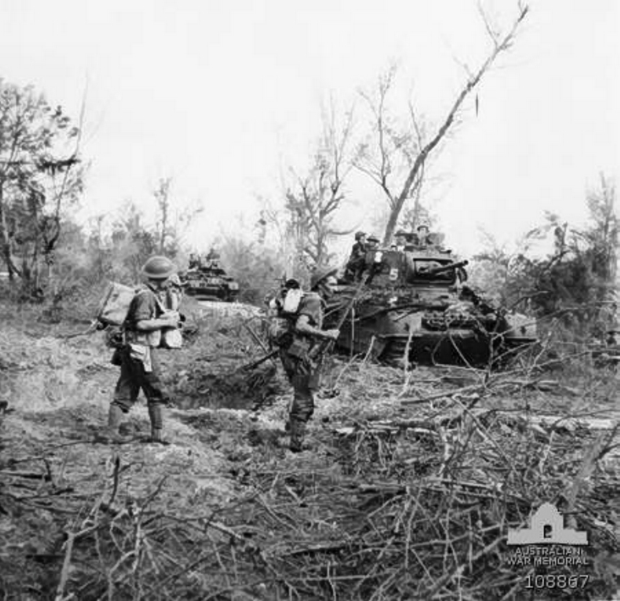 LABUAN, NORTH BORNEO, 1945-06-10. MATILDA TANKS OF B SQUADRON, 9 TROOP, 2/9TH ARMOURED REGIMENT, MOVING EAST SOON AFTER THE OBOE 6 OPERATION LANDING.